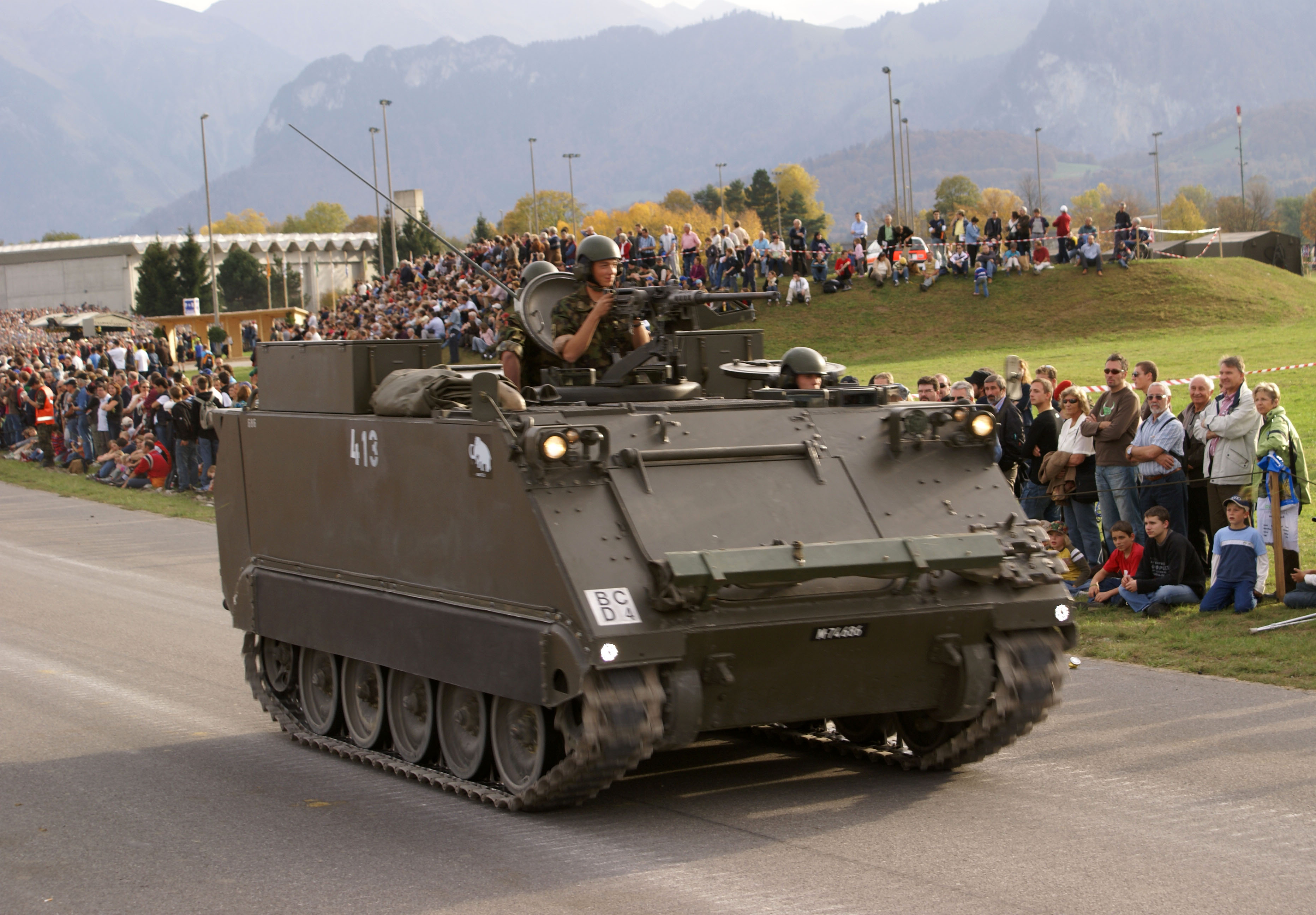 Swiss Army. M113 APC, combat engineering vehicle variant. Participating in the "Steel Parade" of the 2006 Army Days, Thun.